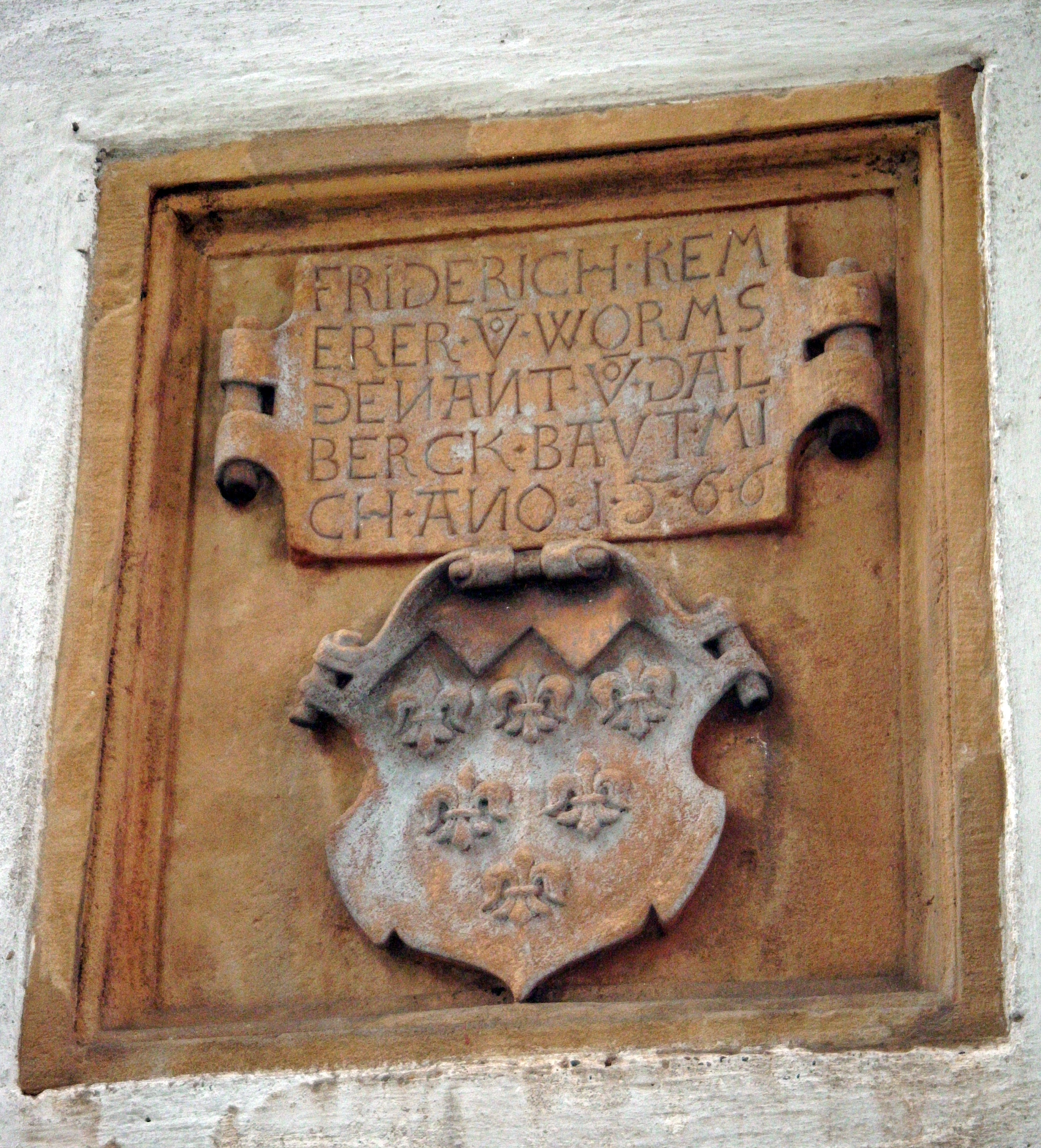 Heuchelheim bei Frankenthal, Prot. Kirche, Erbauerinschrift